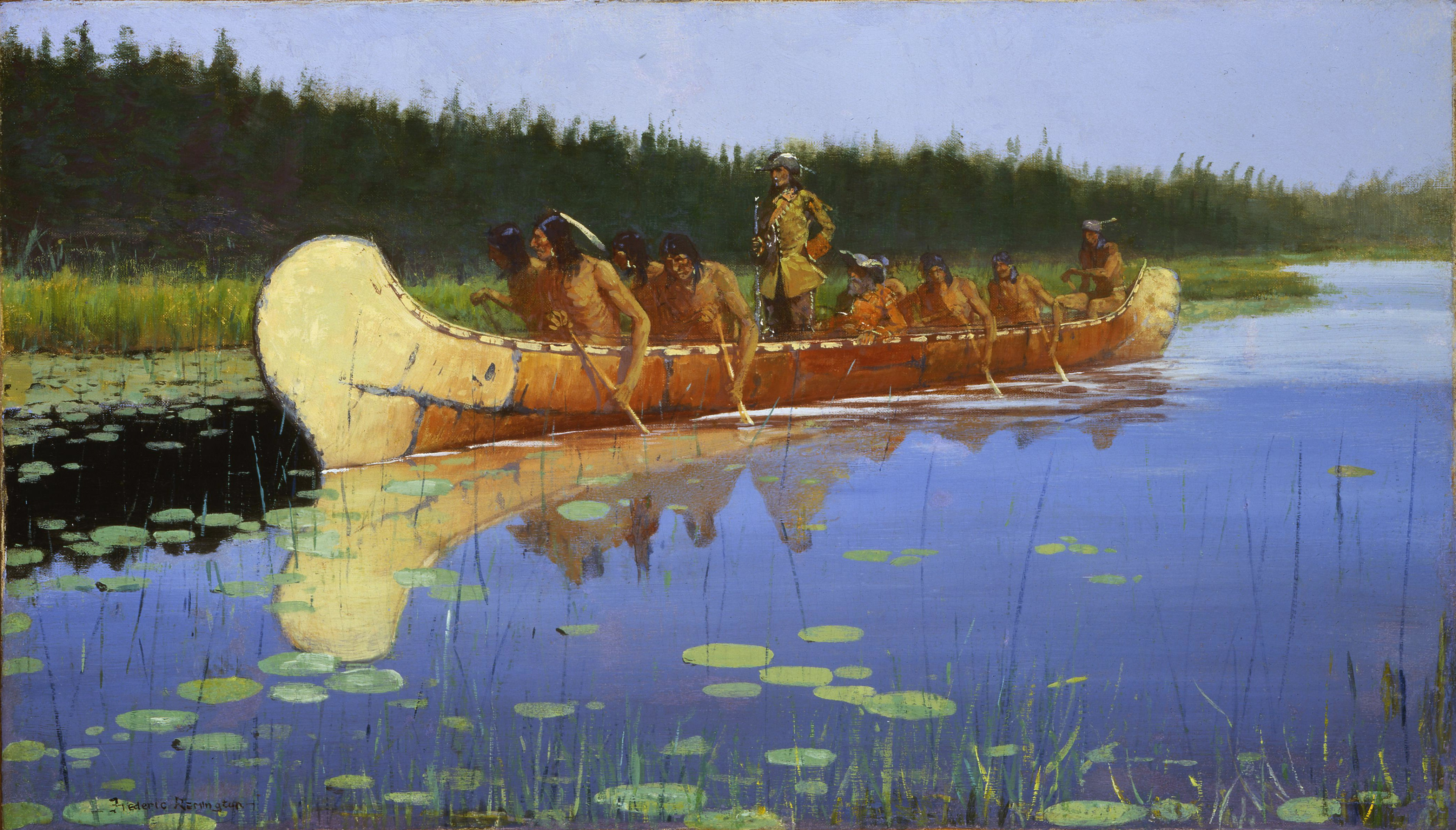 Radisson is the leader and is shown standing. Des Groseillers is sitting beside him.